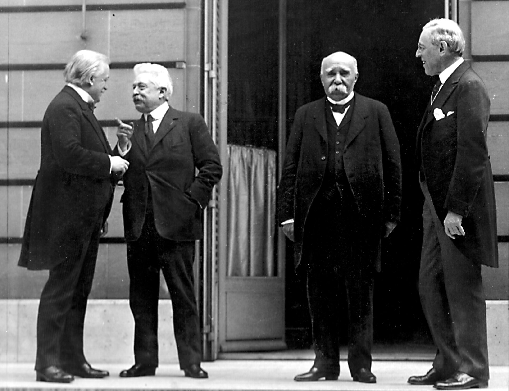 Council of Four at the WWI Paris peace conference, May 27, 1919 (candid photo) (L - R) Prime Minister David Lloyd George (Great Britian) Premier Vittorio Orlando, Italy, French Premier Georges Clemenceau, President Woodrow Wilson